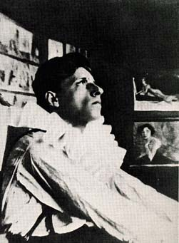 Meyerhold as Pierrot in Alexander Blok's play "The Fairground Booth" year 1906.